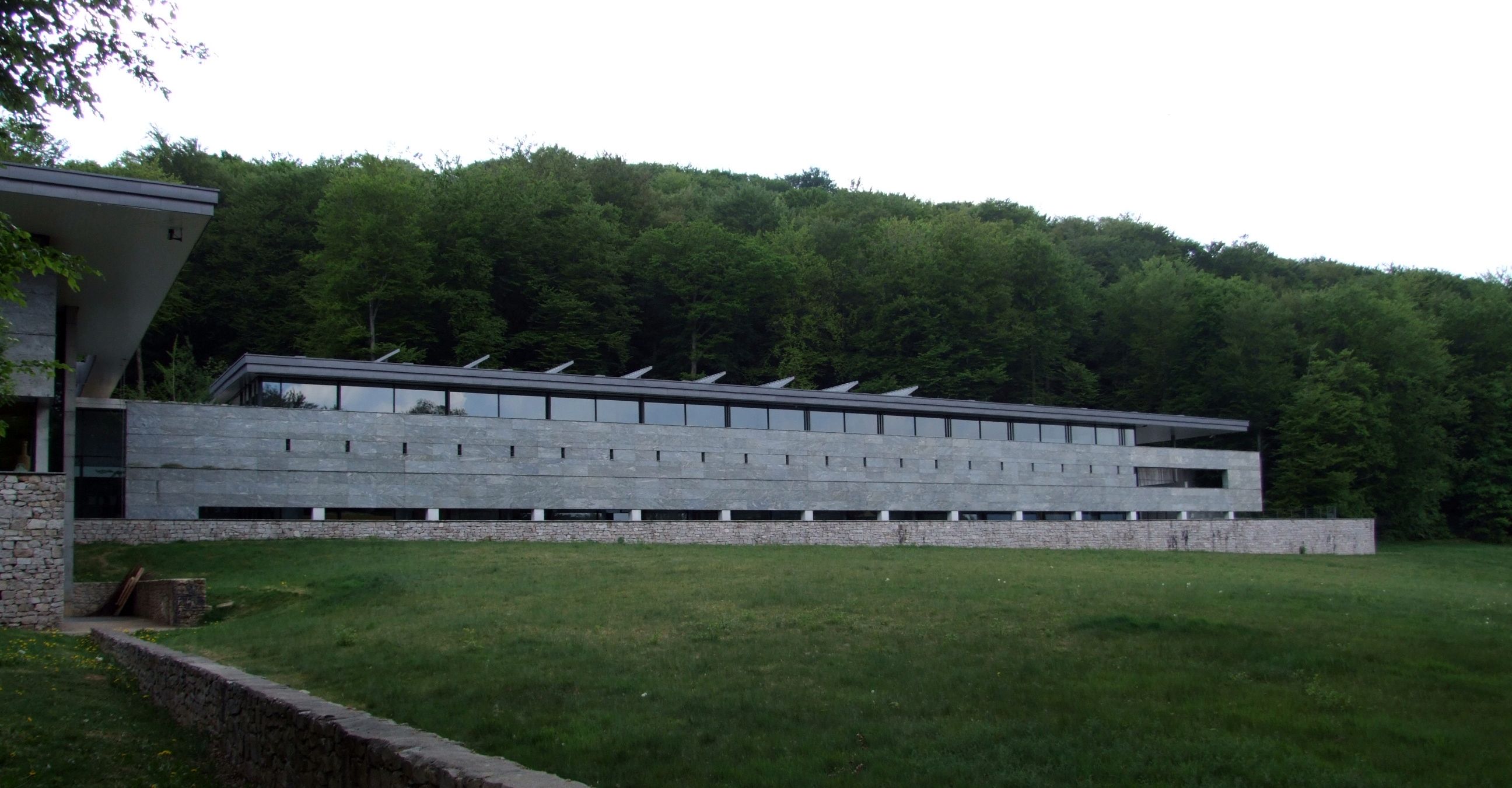 Bibracte, Burgundy, FRANCE